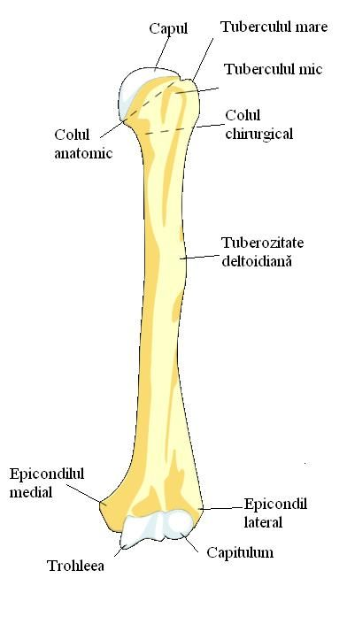 Left Humerus (Arm Bone) from the front